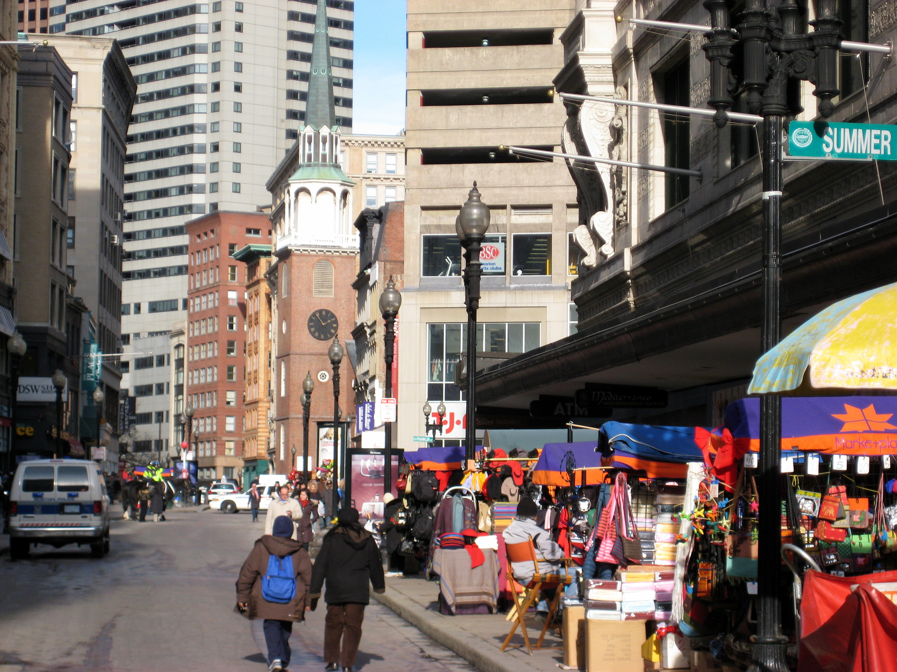 Street scene in Downtown Crossing, Boston with the Old South Meeting House visible February 2009 photo by John Stephen Dwyer